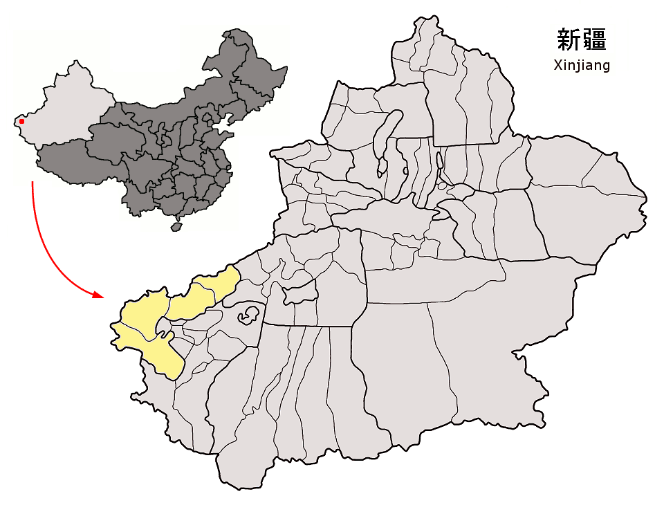 Location of Kizilsu Prefecture (yellow) within Xinjiang autonomous region of China Map drawn in september 2007 using various sources, mainly : Xinjiang Uygur autonomous region administrative regions GIS data: 1:1M, County level, 1990 Xinjiang Counties map from